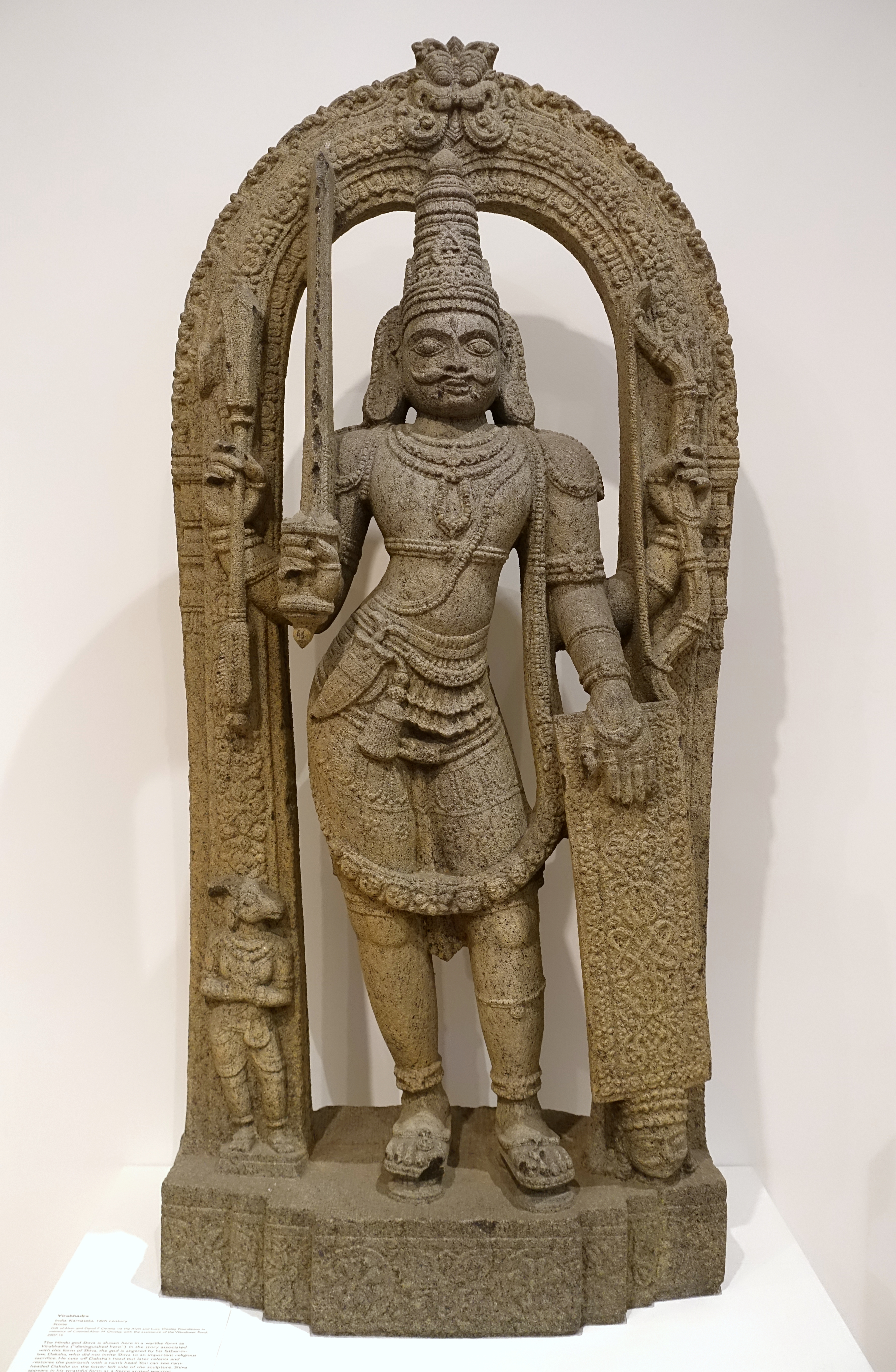 Sculpture from India in the Dallas Museum of Art, Texas, USA.